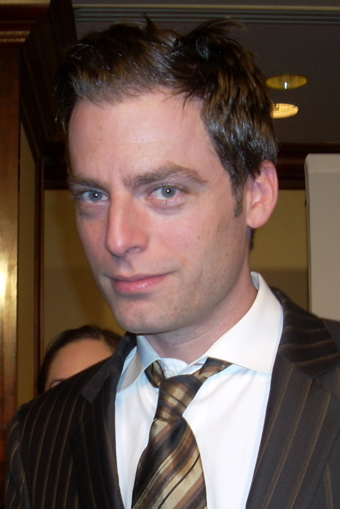 Actor Justin Kirk at Paley Center for Media Gala Honoring Showtime Networks - Century Plaza Hotel, Los Angeles